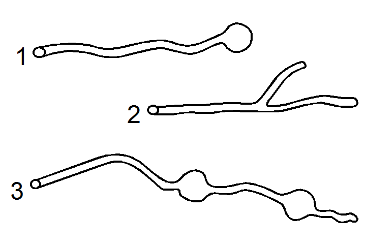 burrow of Phodopus roborovskii